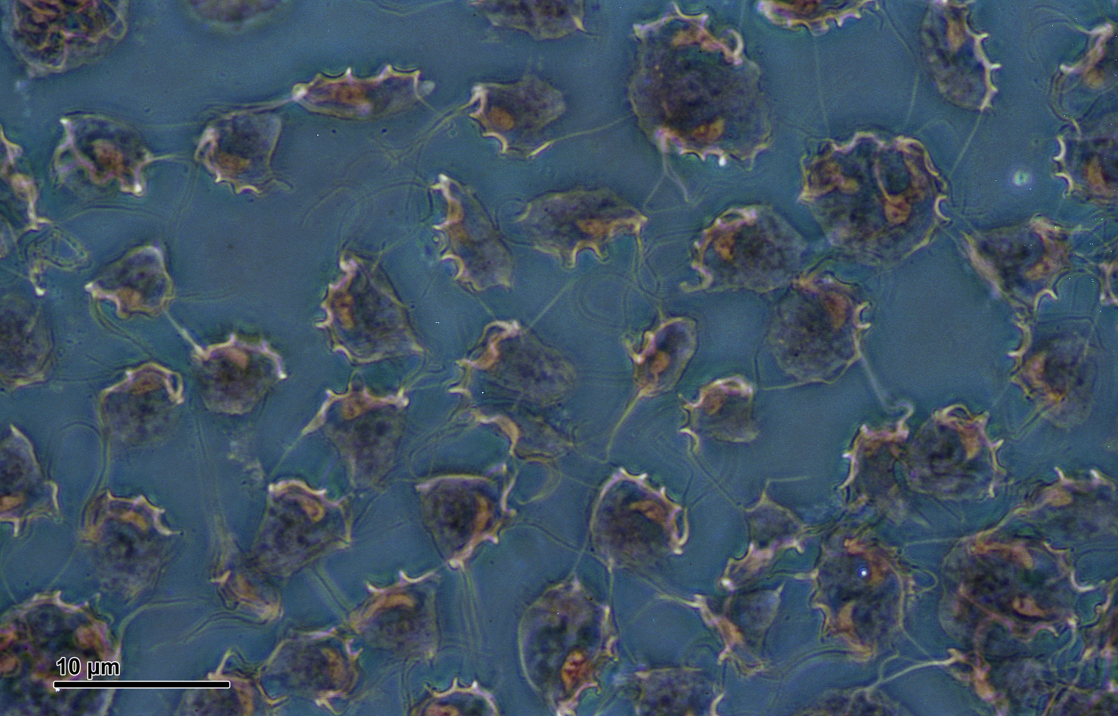 Tritrichomonas foetus (Tritrichomonas foetus): Cultured. Optical microscopy technique: Negative phase contrast. Magnification: 4000x (for picture width 26 cm ~ A4 format).